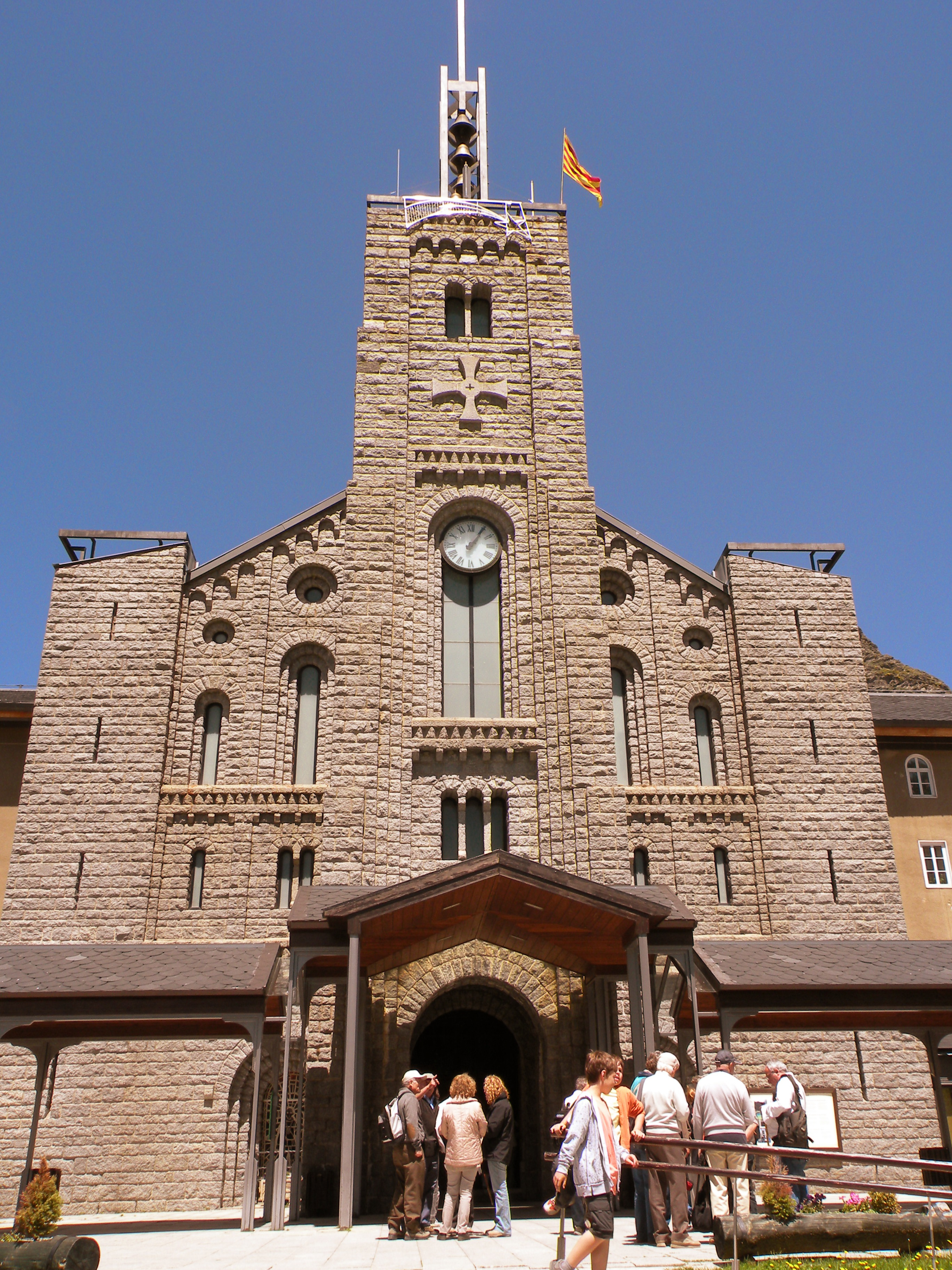 Front of the sanctuary of Nuria